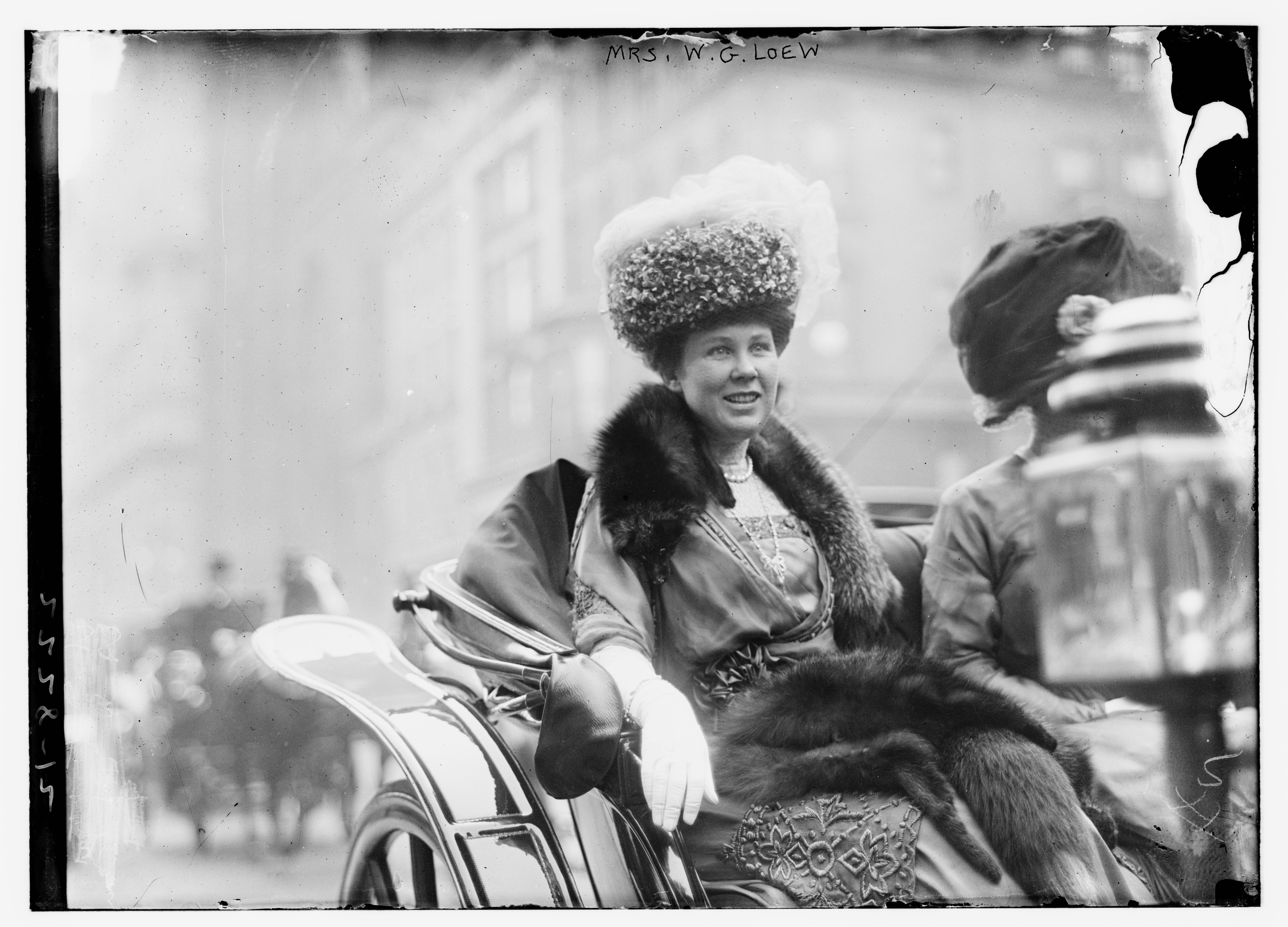 Mrs. W. G. Loew in 1911 (LOC) Bain News Service,, publisher. Mrs. W.G. Loew [between ca. 1910 and ca. 1915] 1 negative : glass ; 5 x 7 in. or smaller. Notes: Title from data provided by the Bain News Service on the negative. Photo shows Mrs. William Goadby Loew. (Source: Flickr Commons project, 2009) Forms part of: George Grantham Bain Collection (Library of Congress). Format: Glass negatives. Repository: Library of Congress, Prints and Photographs Division, Washington, D.C. 20540 USA, General information about the Bain Collection is available at Persistent URL: Call Number: LC-B2- 2228-12